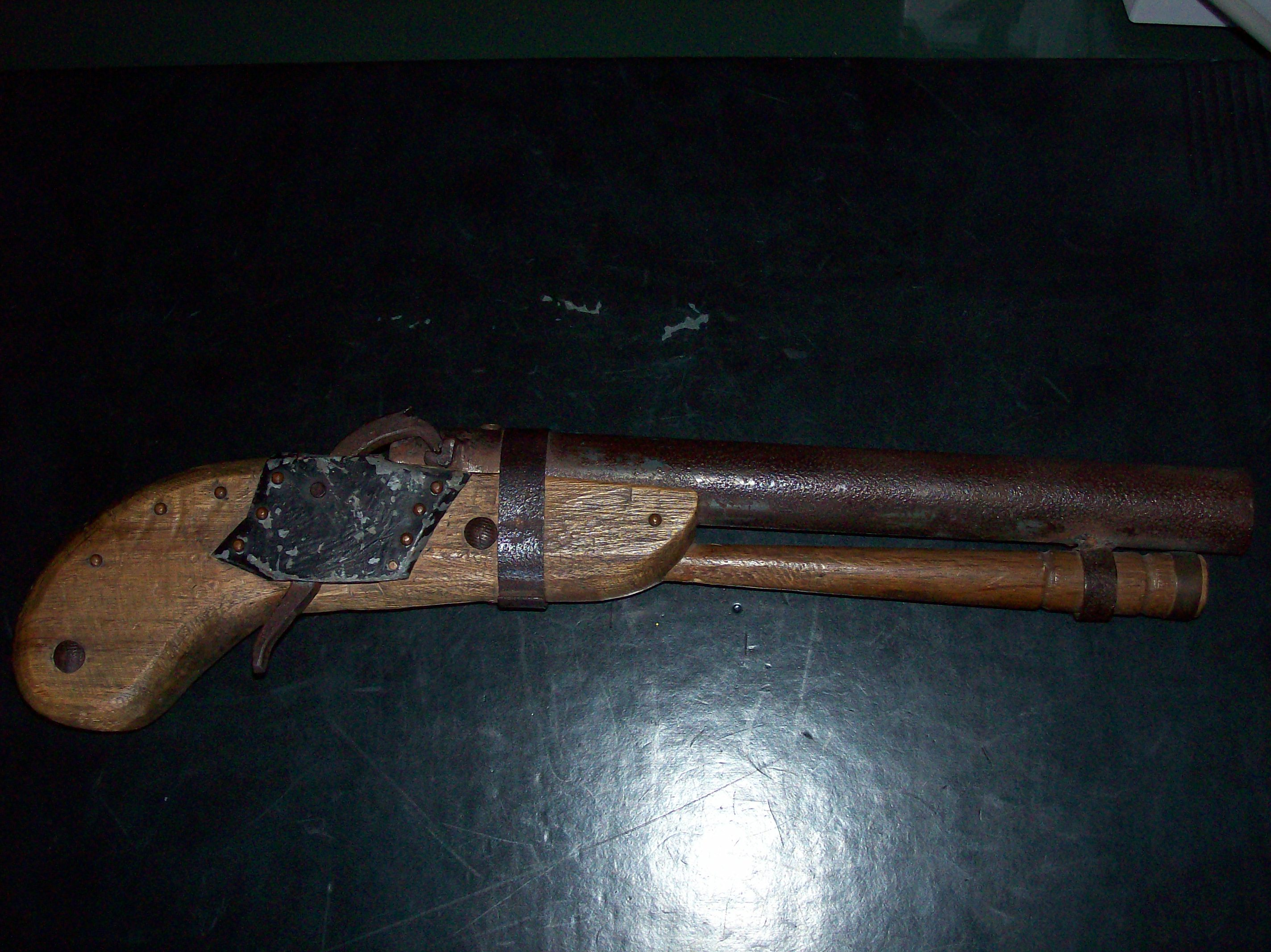 Pirate's pistol model